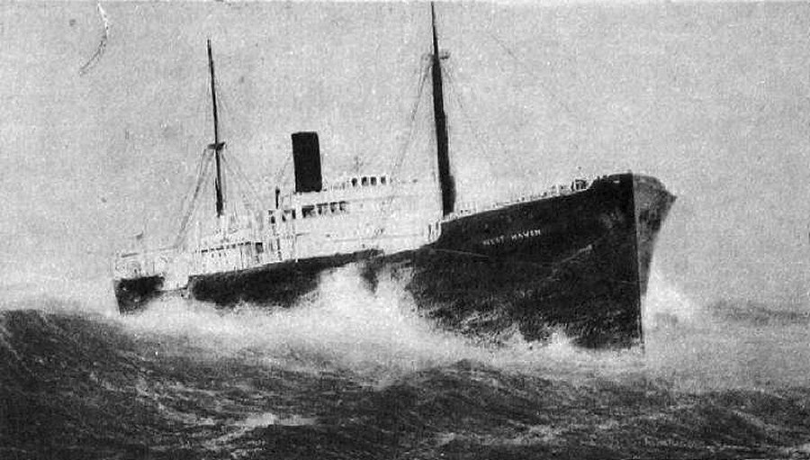 SS West Haven at sea, circa 1921.